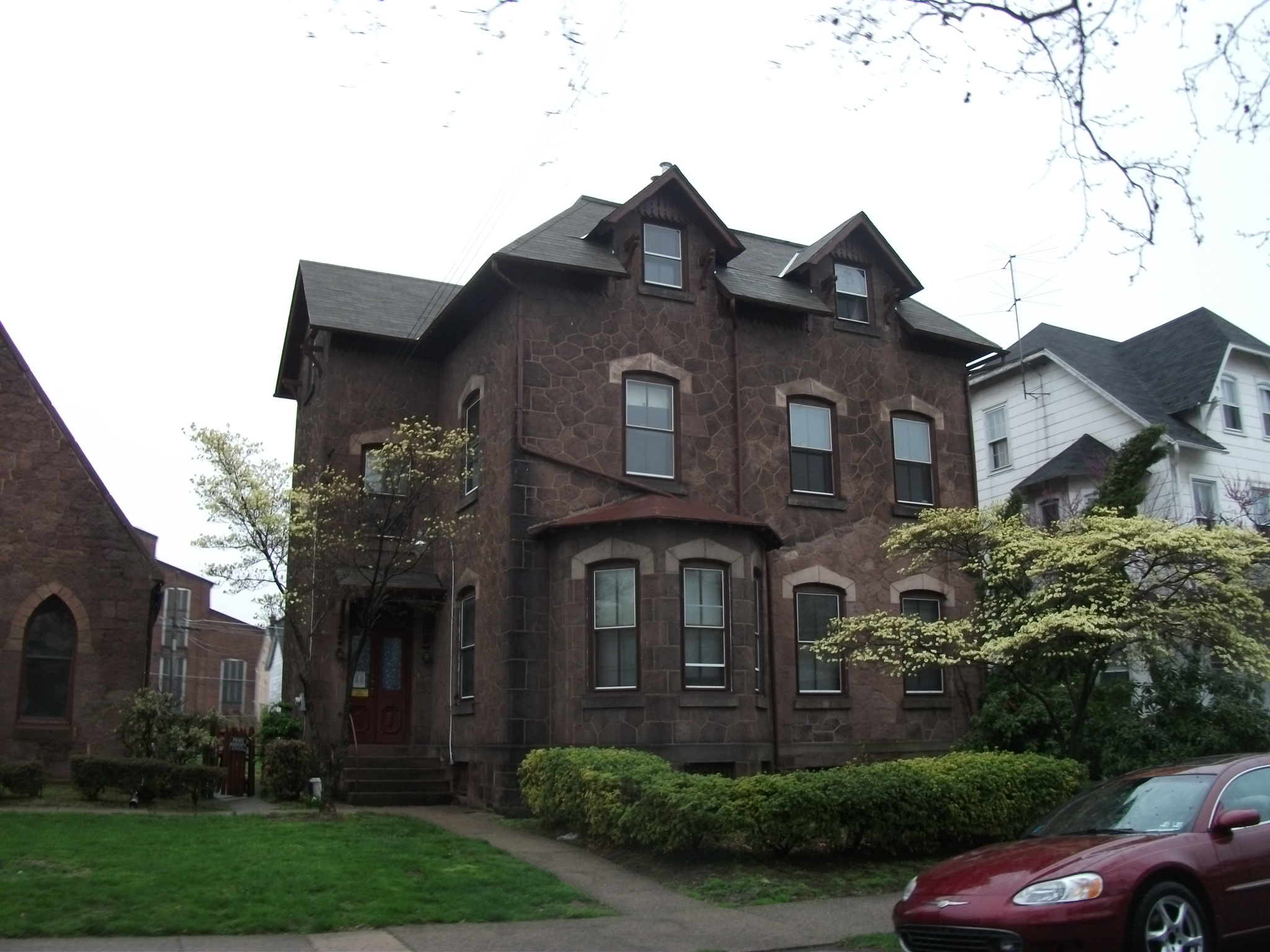 St. Michael's Rectory, Birdsboro, Pennsylvania